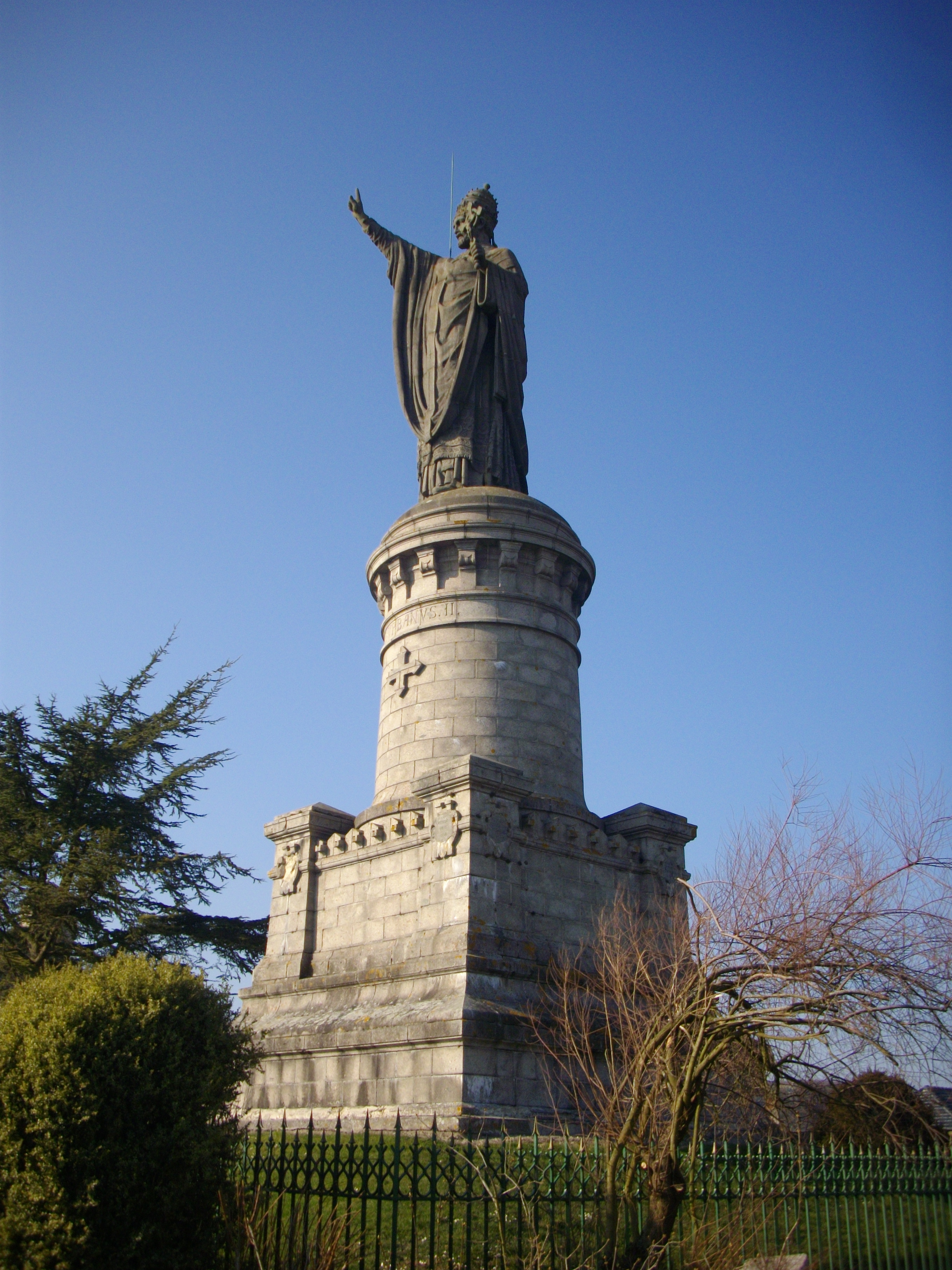 Statue of Pope Urban II in Châtillon-sur-Marne (Marne, France)